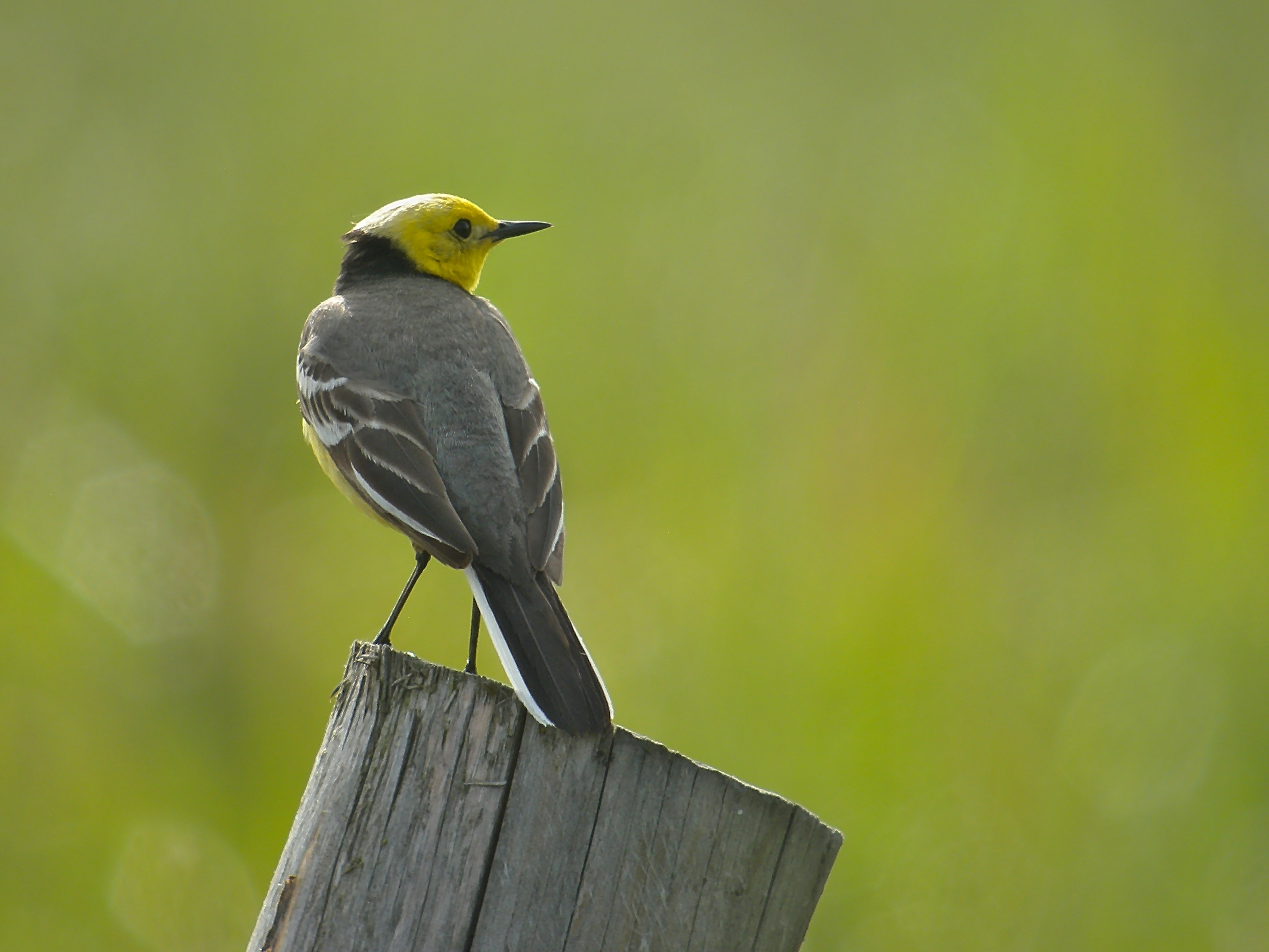 Motacilla citreola This beautiful wagtail is currently expanding its breeding range from Asia westward into Europe. It is now a localised but regular breeder in eastern Poland. Swarowski 80 HD 30 X, Coolpix P6000 (Adapter DCB)